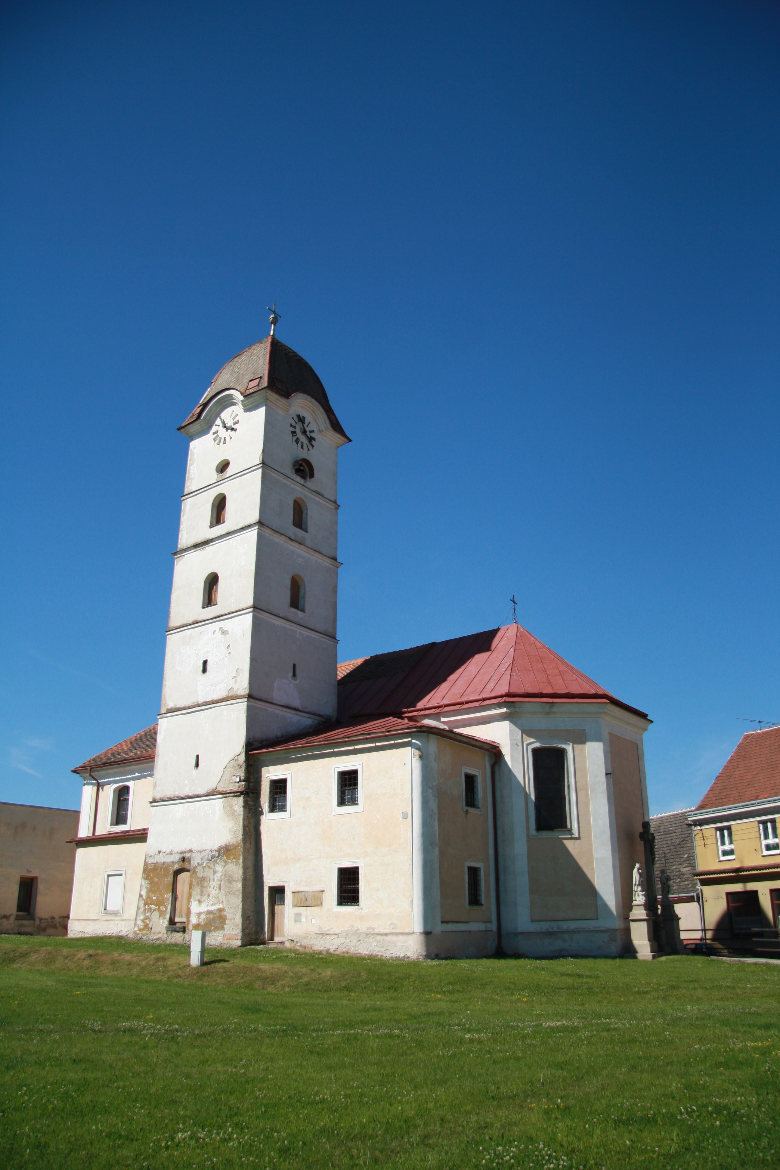 Overview of Church of Saint Michael in Želetava, Třebíč District.